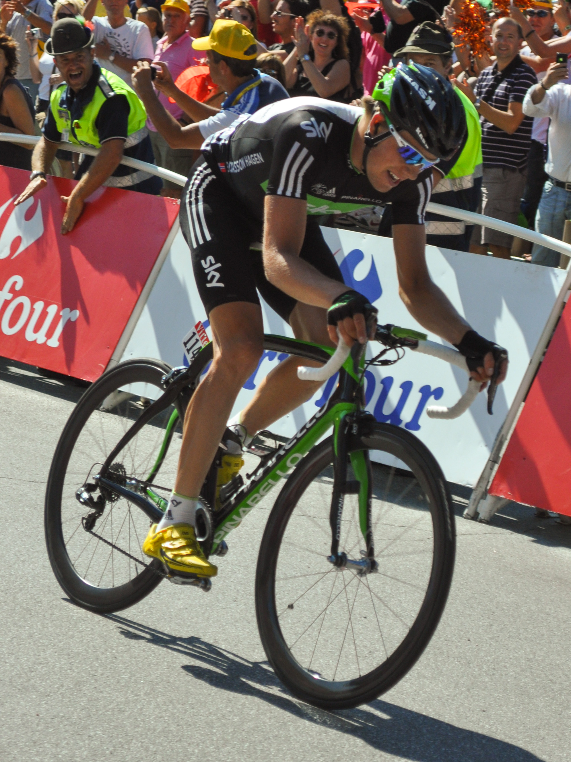 Edvald Boasson Haggen approaches the finish line of stage 17 of the 2011 Tour de France, in Pinerolo. Boasson Hagen won the stage.